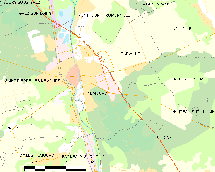 Map of French municipality Nemours